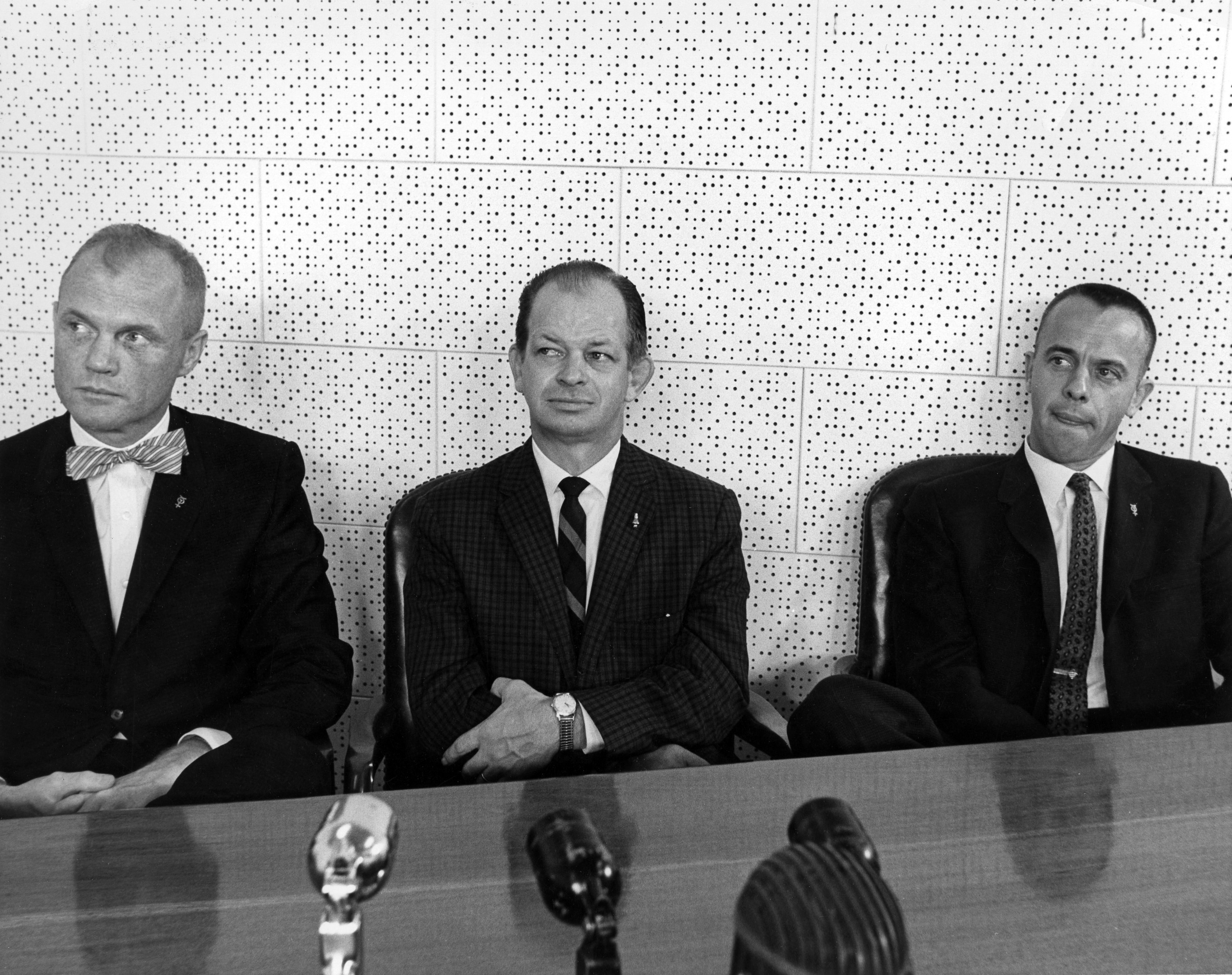 Black-and-white photo of Mercury astronaut John Glenn; Lt. Col. John A. "Shorty" Powers, USAF (922-1979), Project Mercury public affairs officer; and Mercury astronaut Alan Shepard at impromptu news conference at Cape Canaveral, Florida